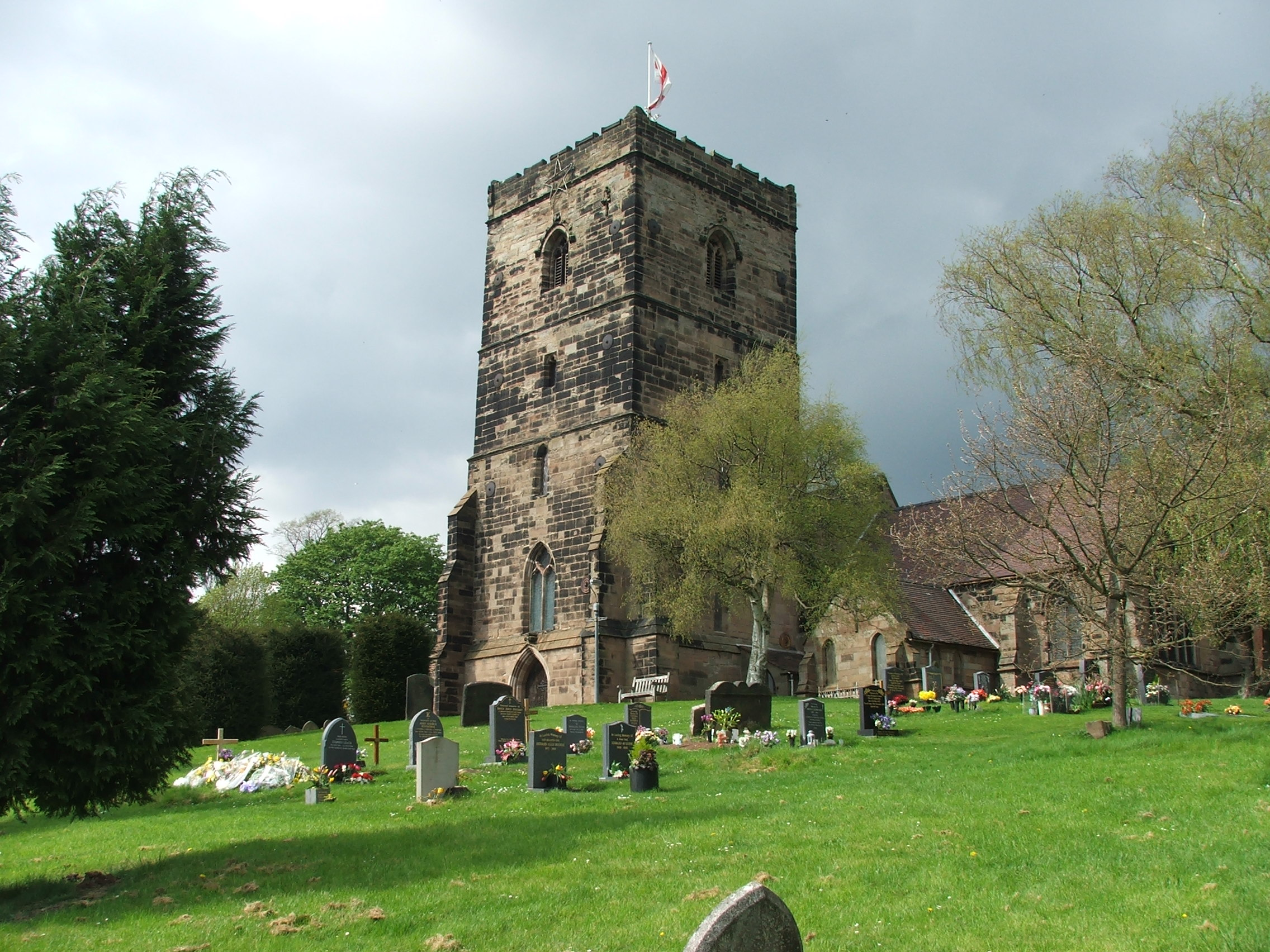 The church of St Agustine's